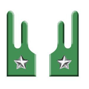 Collar Insignia of the Alpini Infantry of the Italian Army. Downloaded from the official homepage of the Italian Army. Authorization for use on Wikipedia granted by the Italian Army (see Italian Wikipedia at: under the condition that the source always be named.